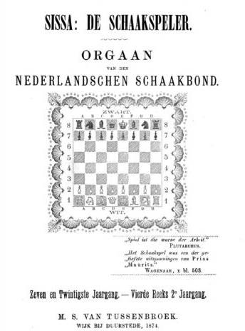 Dutch chess magazine Sissa (1874)